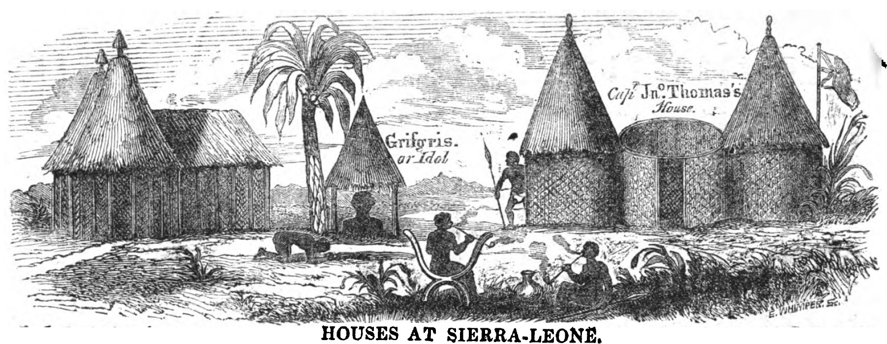 "Houses at Sierra-Leone", Wesleyan Juvenile Offering: A Miscellany of Missionary Information for Young Persons, volume X, May 1853, pp. 55–57, illustration on p. 55